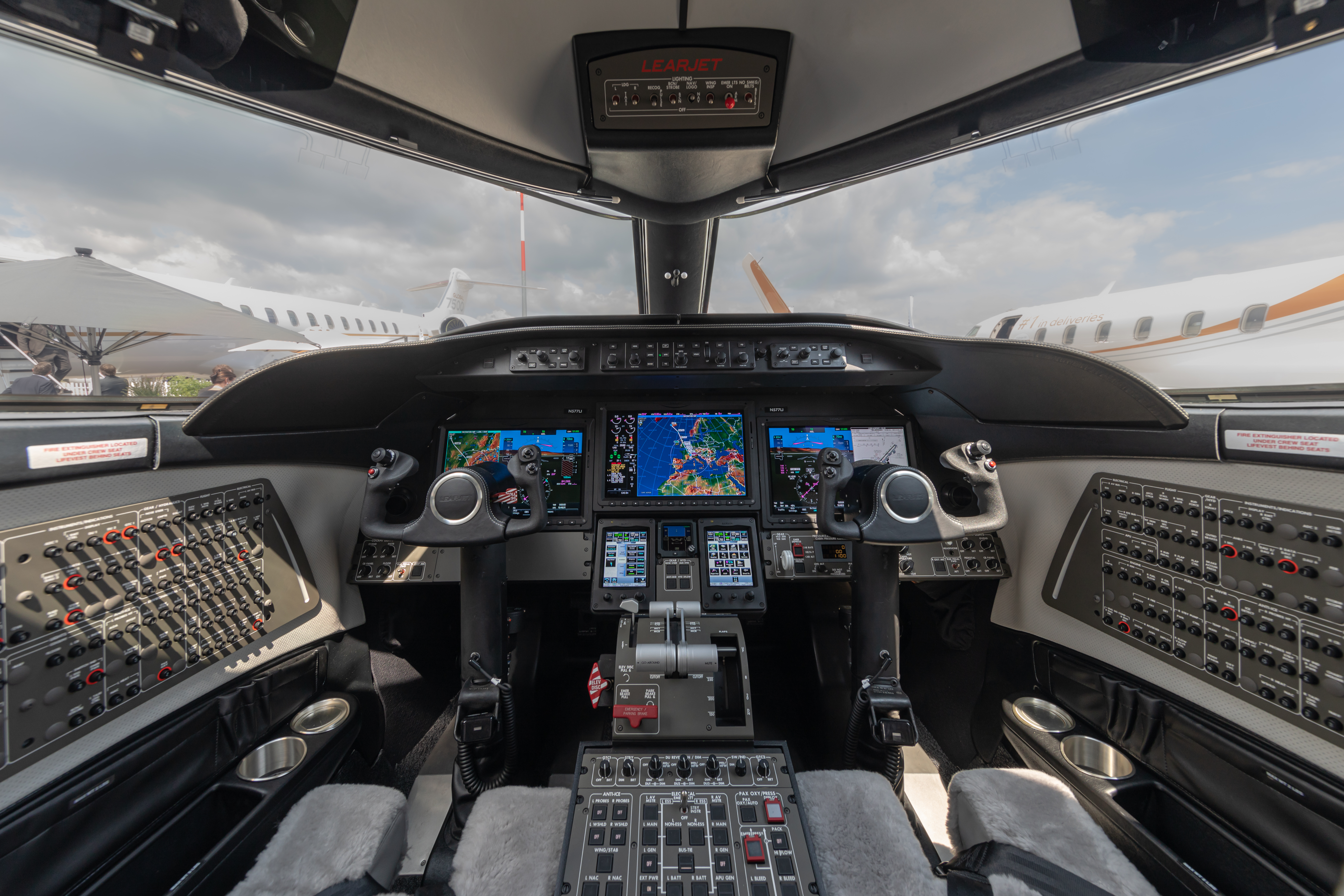 Cockpit of a Learjet 75 at EBACE 2019, Palexpo, Switzerland